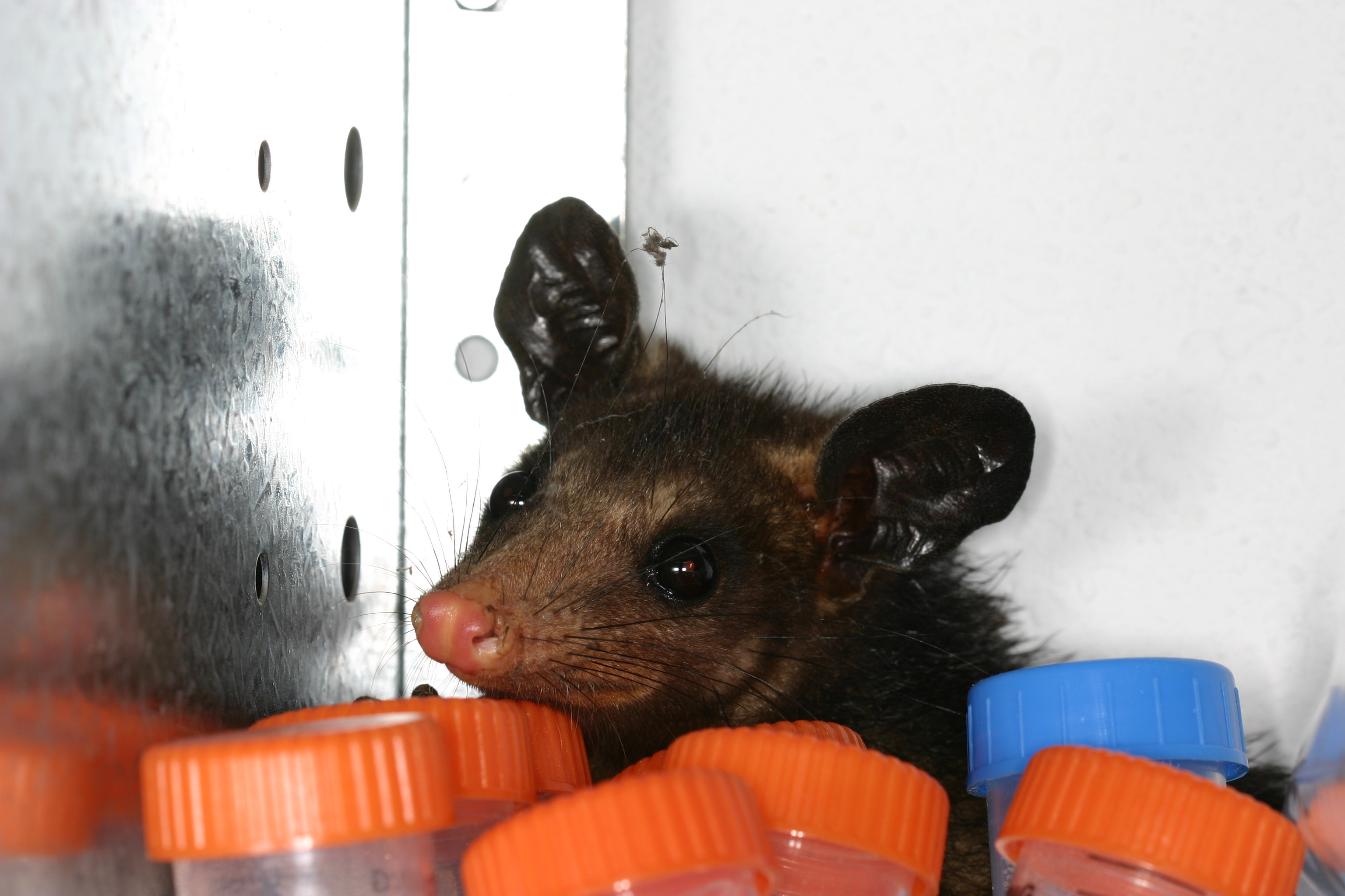 Didelphis marsupialis. Cayenne, French Guiana. Intrusion in human dwelling